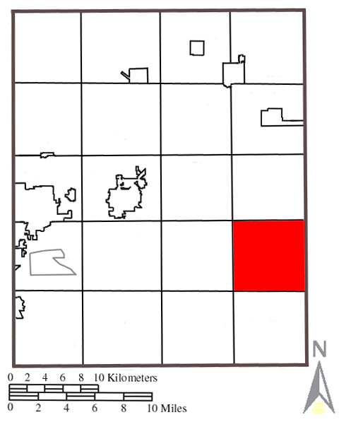 Map of Portage County, Ohio with Palmyra Township highlighted.